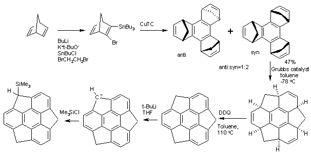 Sumanene synthesis